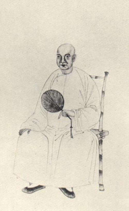 Li Zonghan, politician and scholar of the Qing Dynasty.